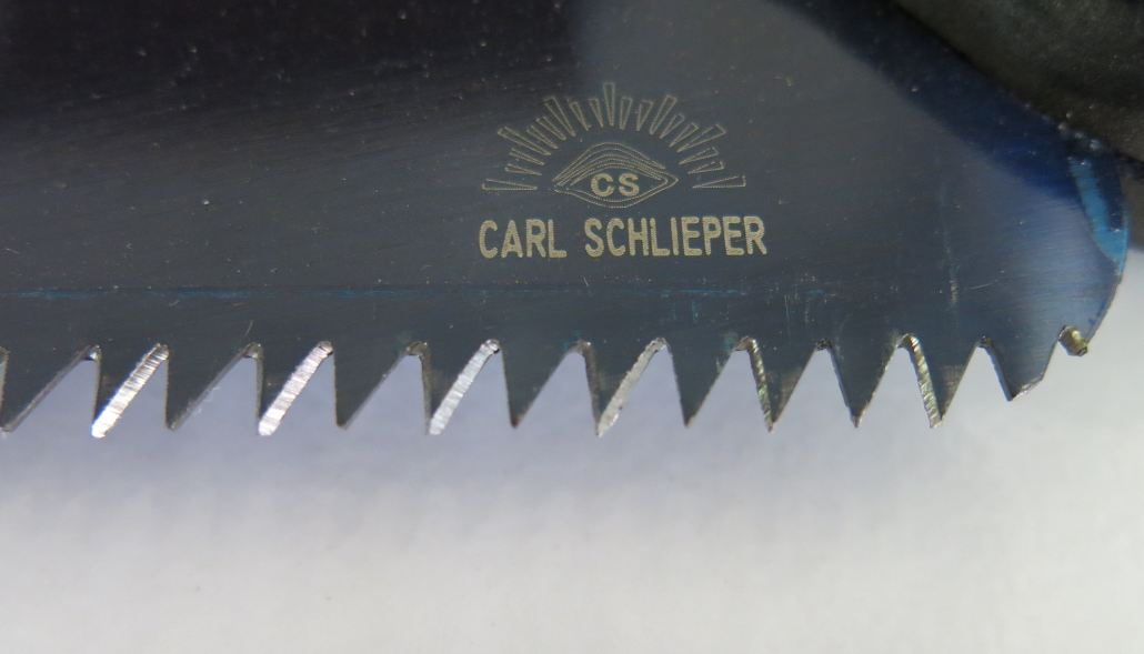 Close view of cross-cut saw teethNorsk nynorsk: Nærbilde av tverrkantsågene